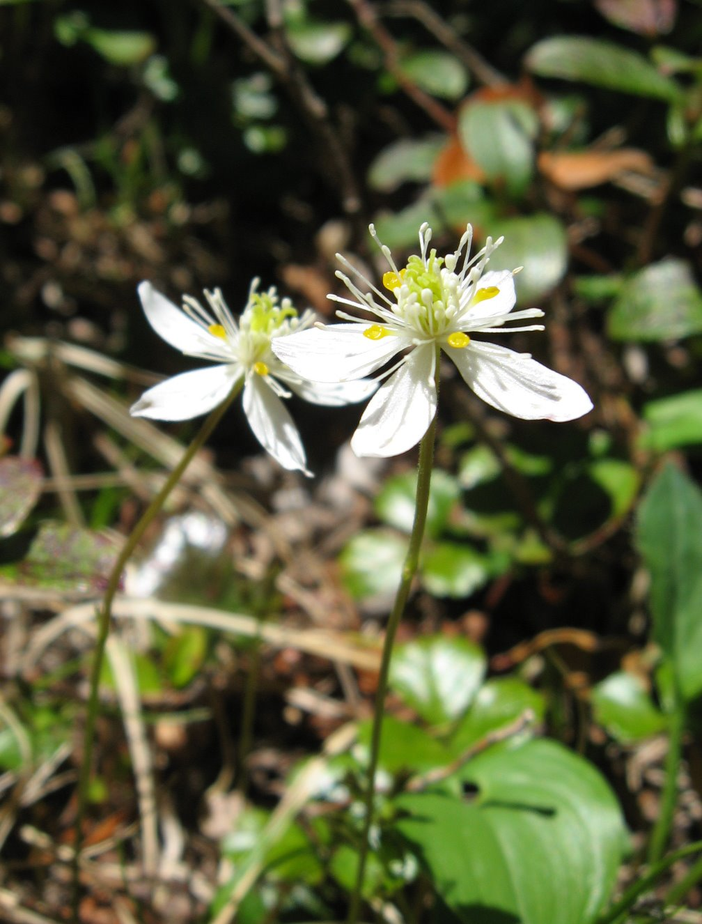 Coptis trifolia